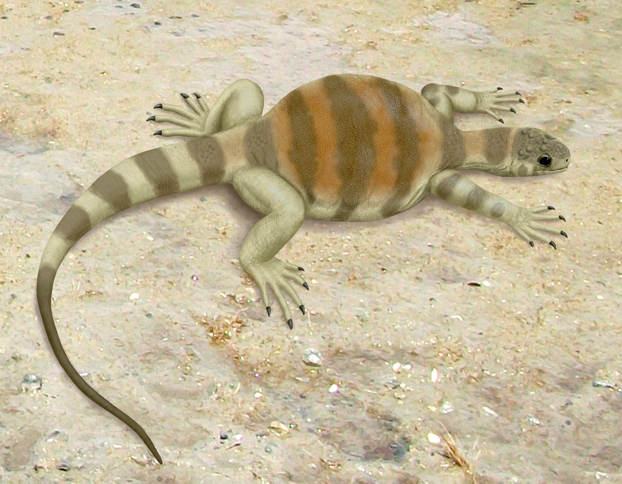 Life restoration of Eunotosaurus africanus. Based on skeletal in this cladogram, originally from "Transitional fossils and the origin of turtles" by Tyler R. Lyson, Gabe S. Bever, Bhart-Anjan S. Bhullar, Walter G. Joyce, and Jacques A. Gauthier (Proceedings of the Royal Society B).